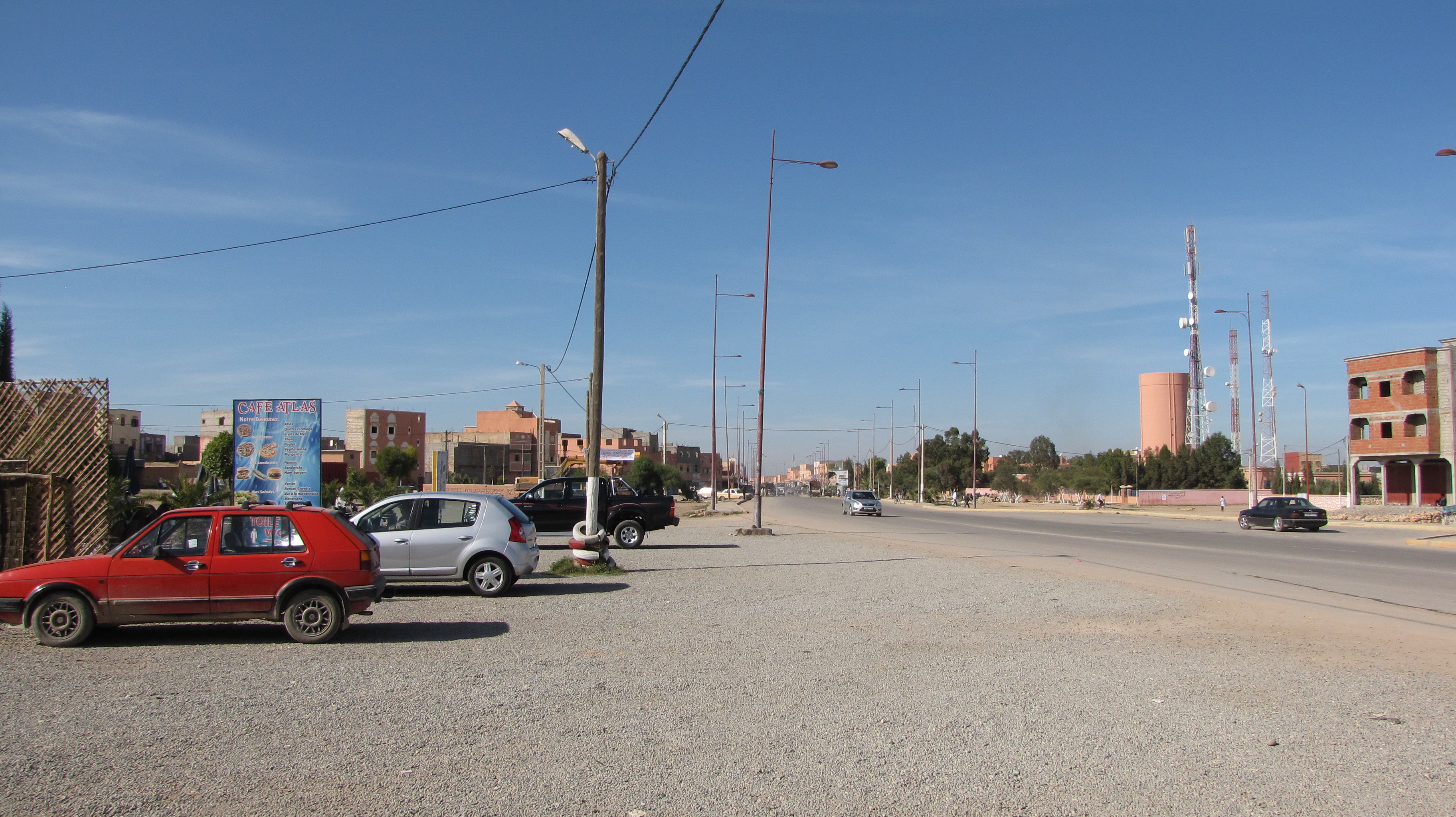 A view in Moroccan town Sid L'Mokhtar in Chichaoua Province, Marrakech-Tensift-Al Haouz region.